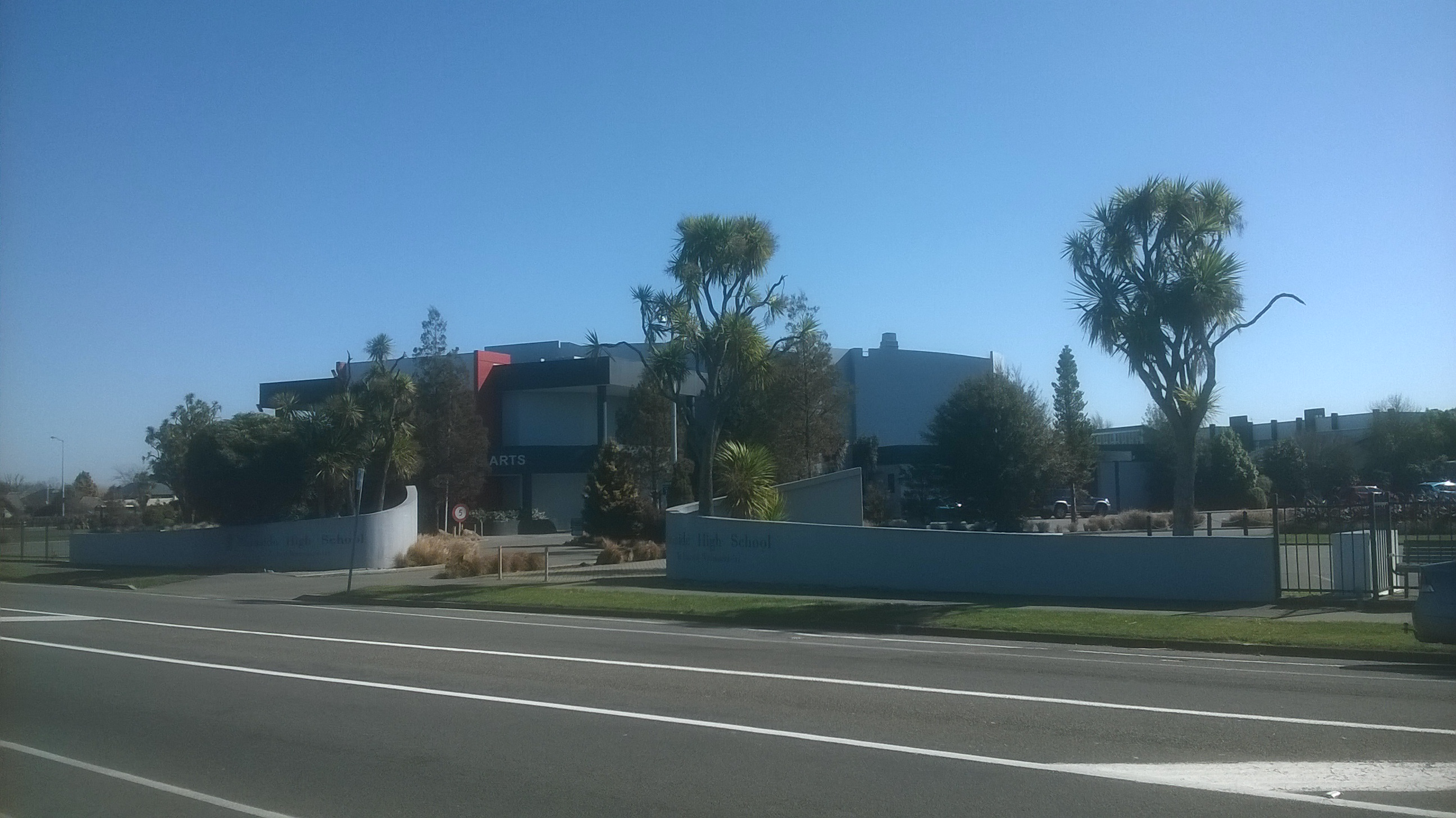 The View of the entrance to Burnside High School